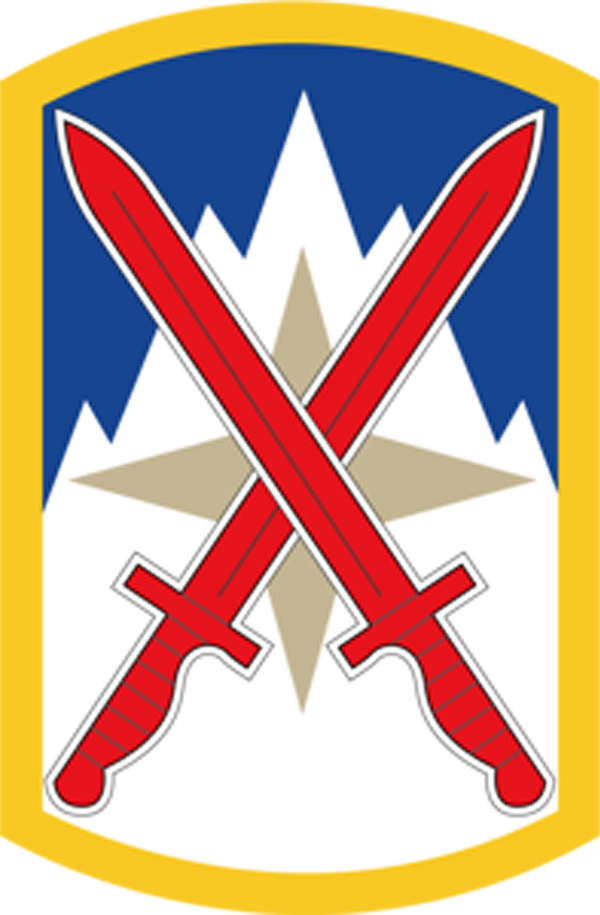 10th Sustainment Brigade shoulder sleeve insignia from